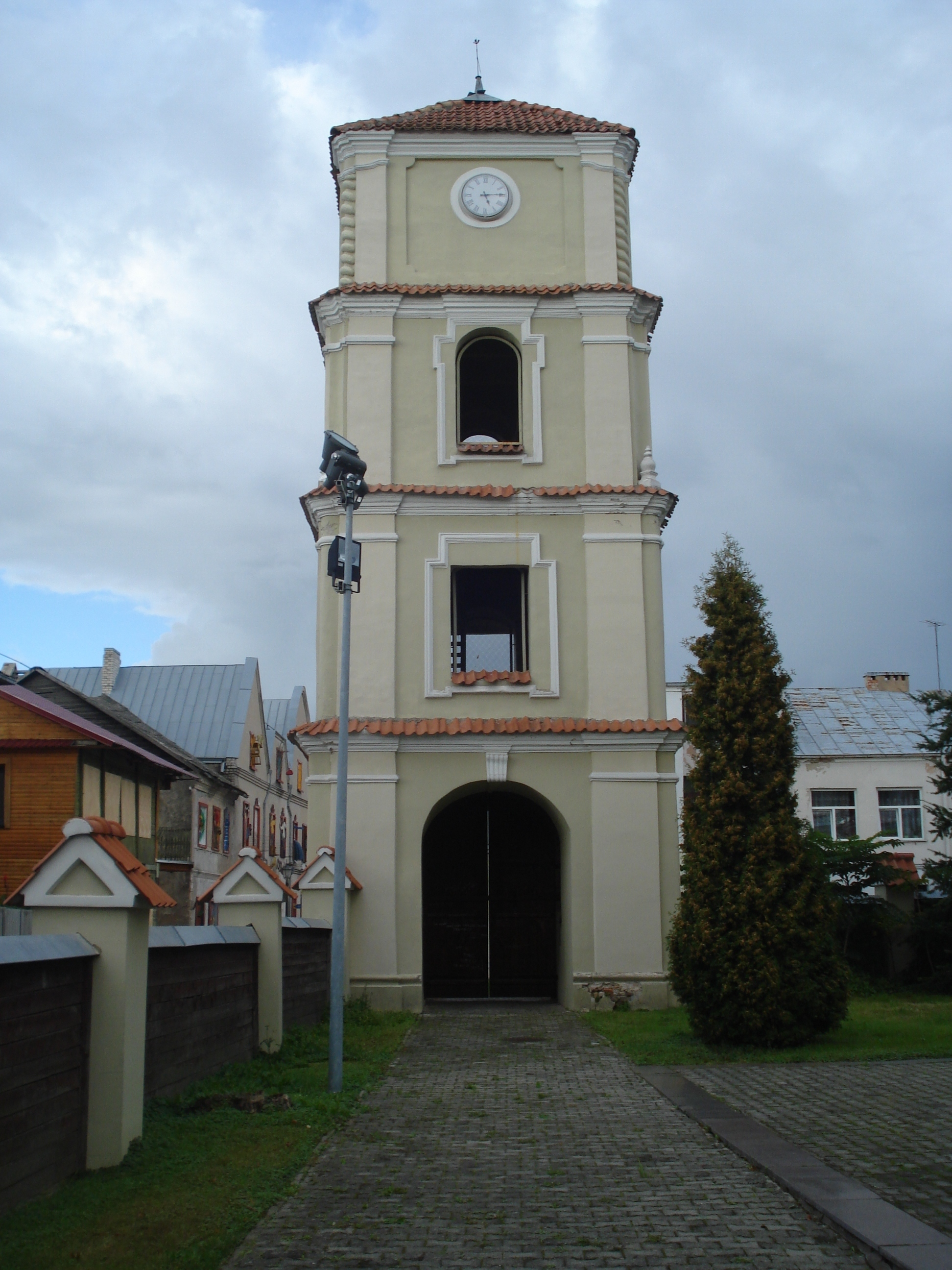 The bell tower of the Evangelical Reformed Church in Kėdainiai (Lithuania)